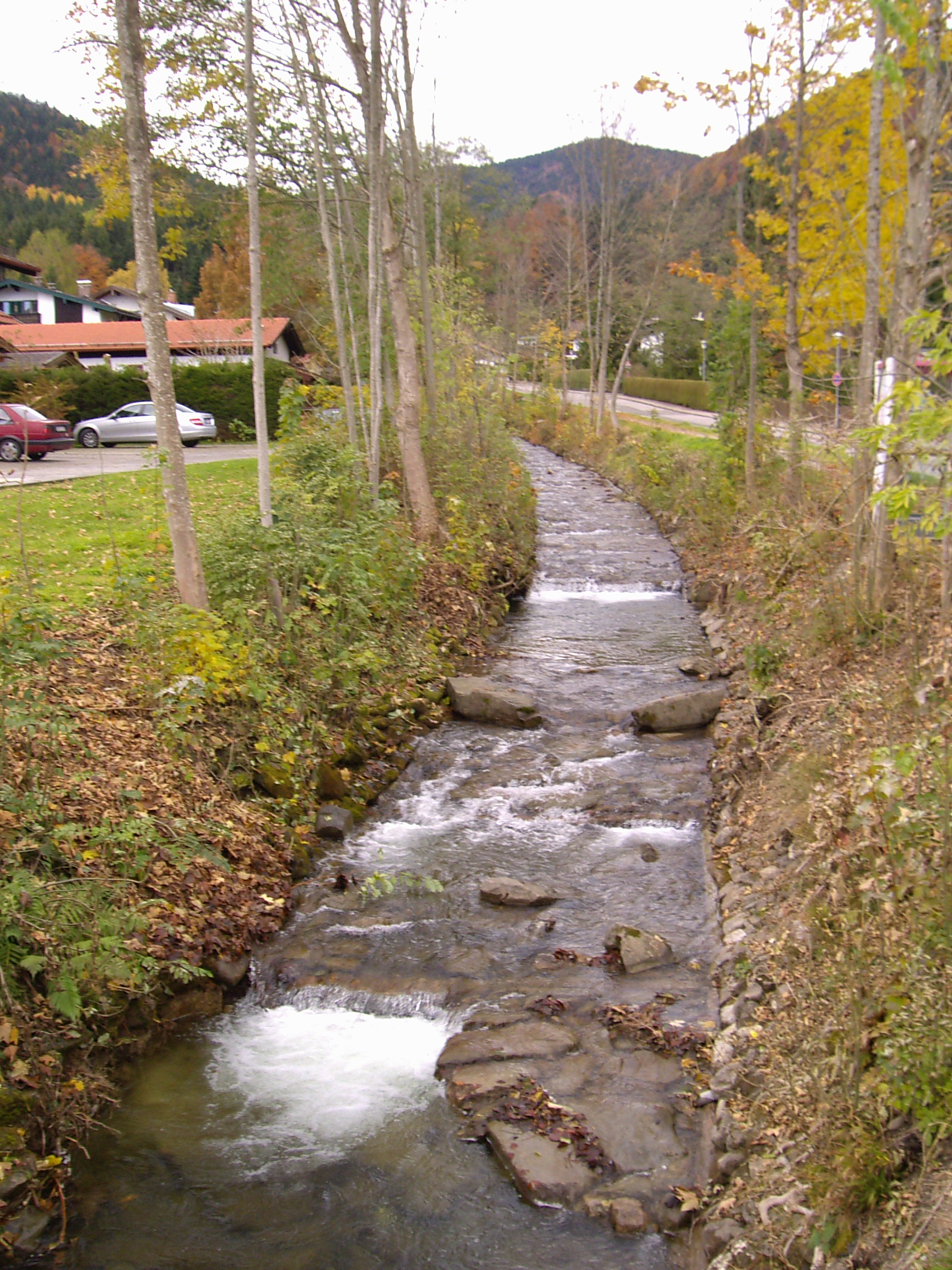 The creek "Breitenbach" in the municipality of Bad Wiessee